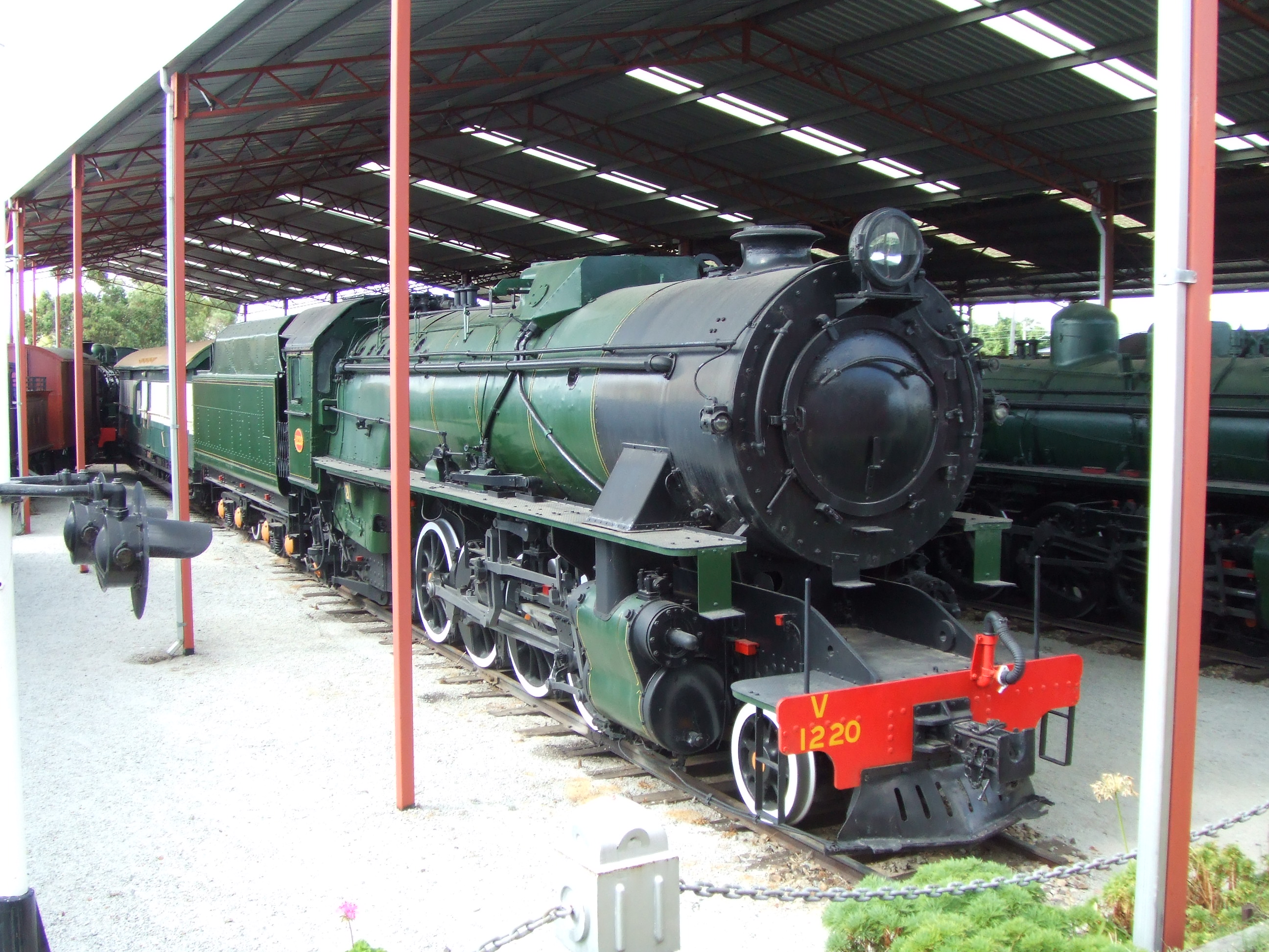 Western Australian Government Railway "V" 2-8-2 No.1220 (Beyer Peacock 7745/1955). 1 ton heavier than a GWR "King" despite 3'6" gauge. 4/06.